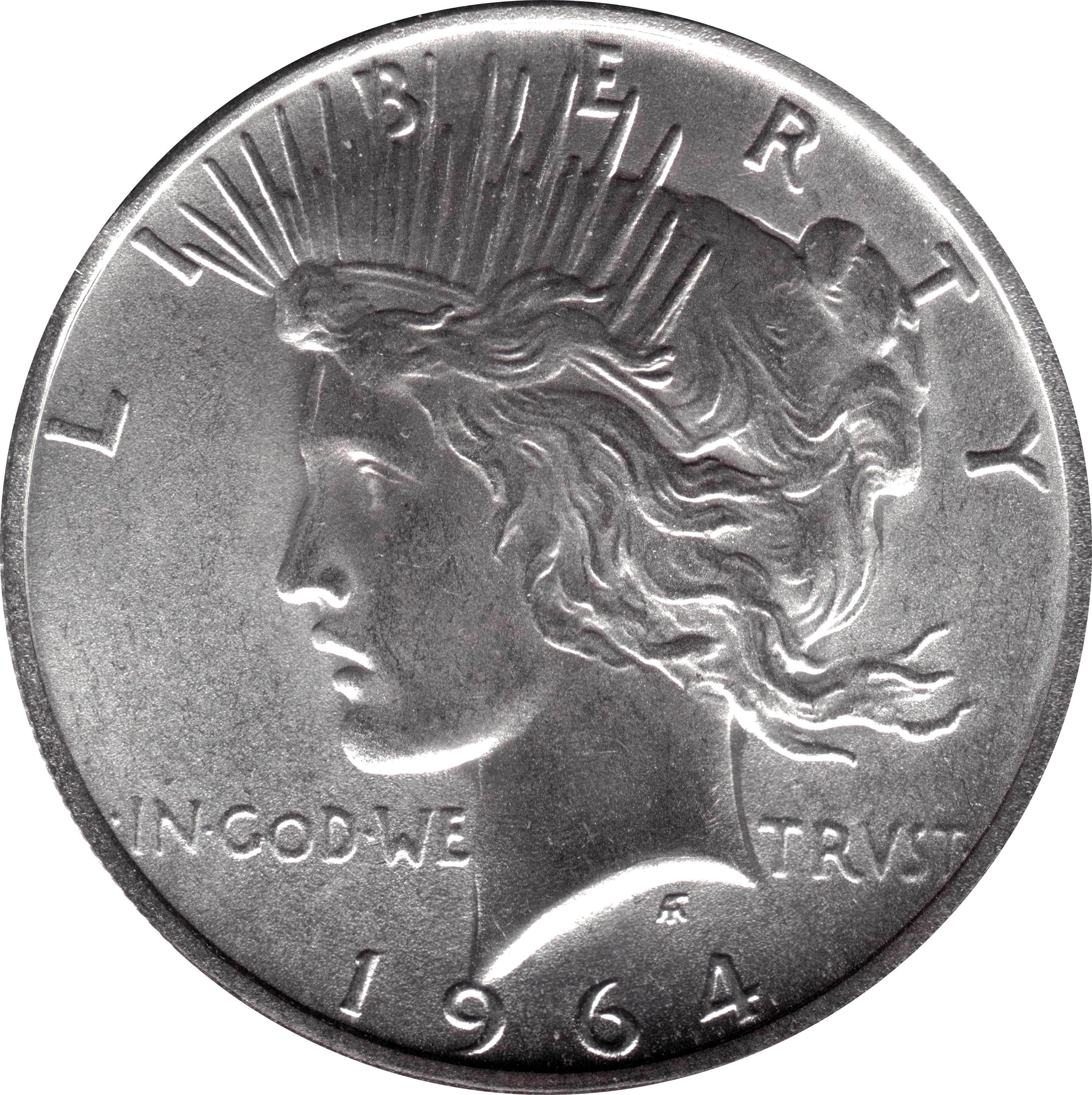 Peace dollar restruck privately to produce 1964 date.